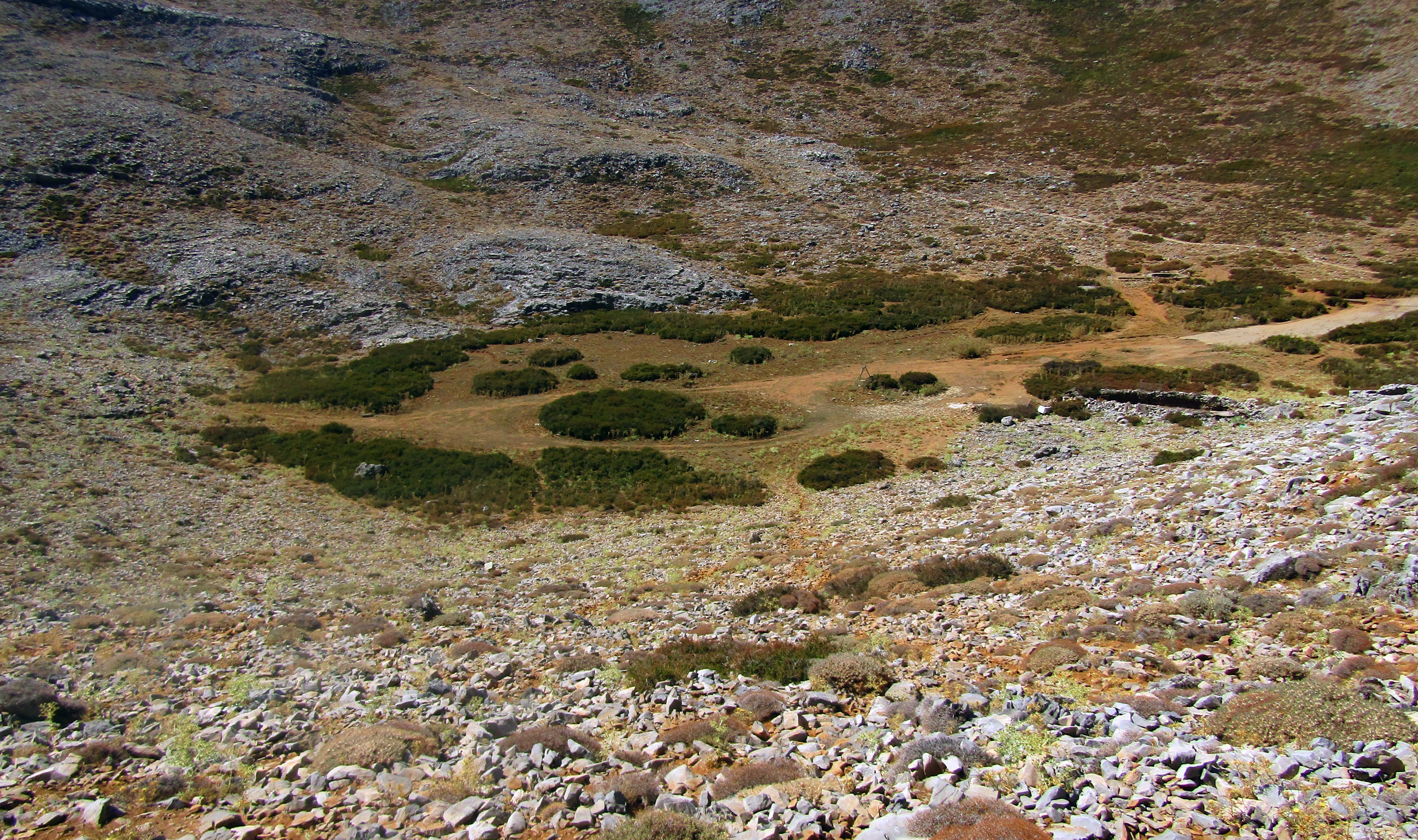 A ponor nearby Mygero mountain hut - Mount Ida, Crete